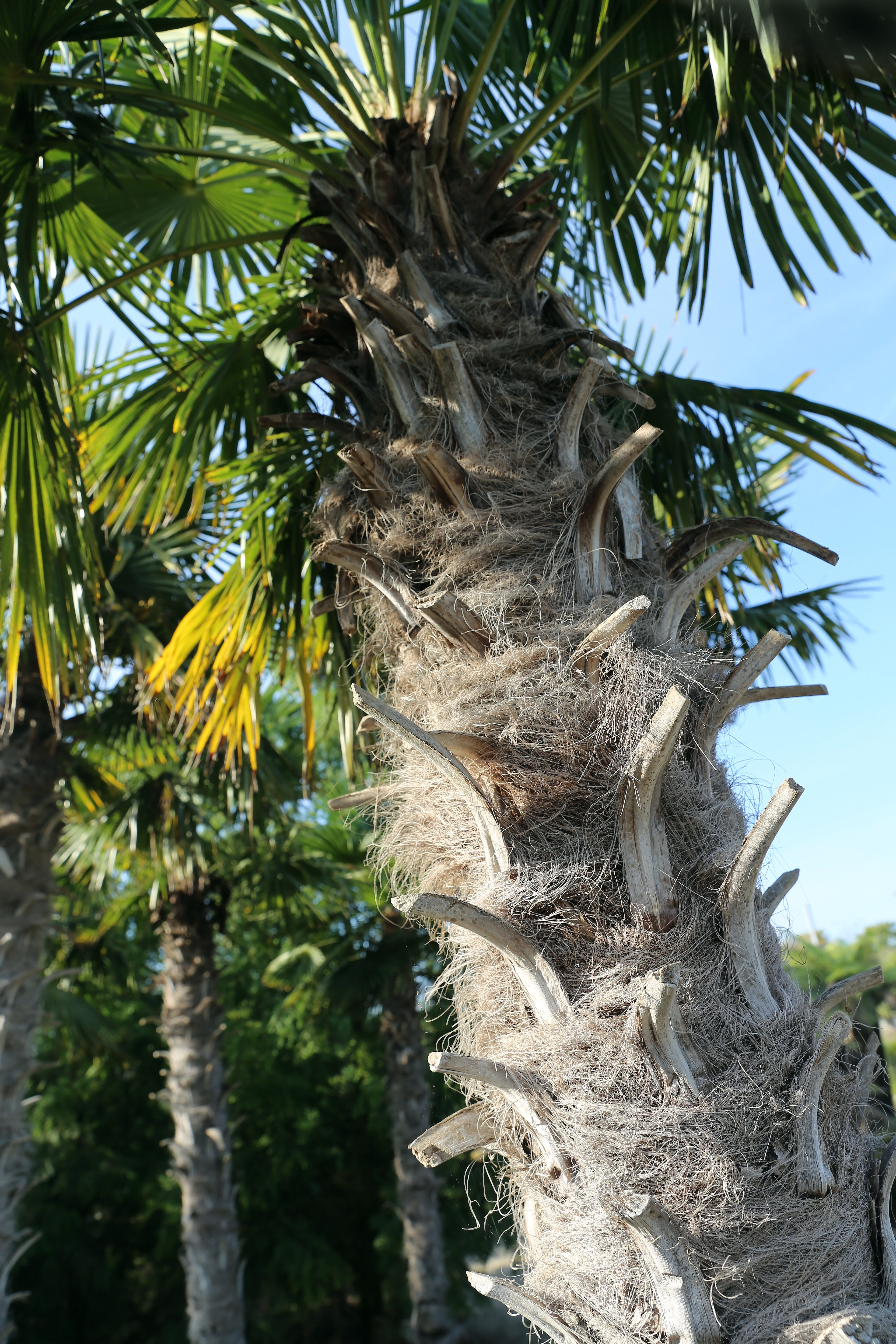 Trachycarpus fortunei at Blumengärten Hirschstetten in Vienna, Austria.